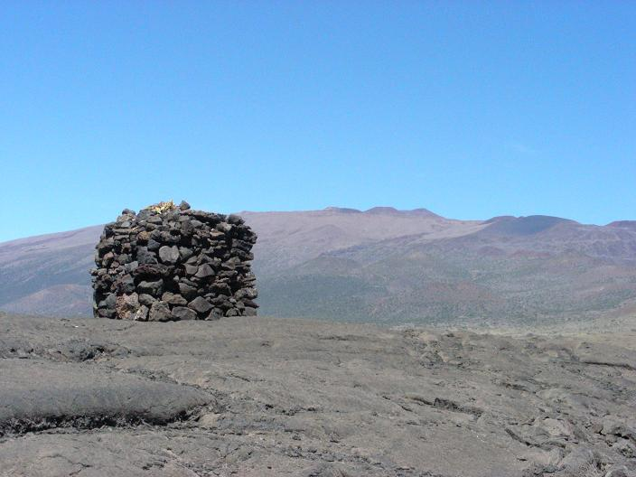 A stone structure, possibly a prehistoric marker or lele (altar), in the saddle between Mauna Loa and Mauna Kea, Hawaii, with Mauna Kea in the background